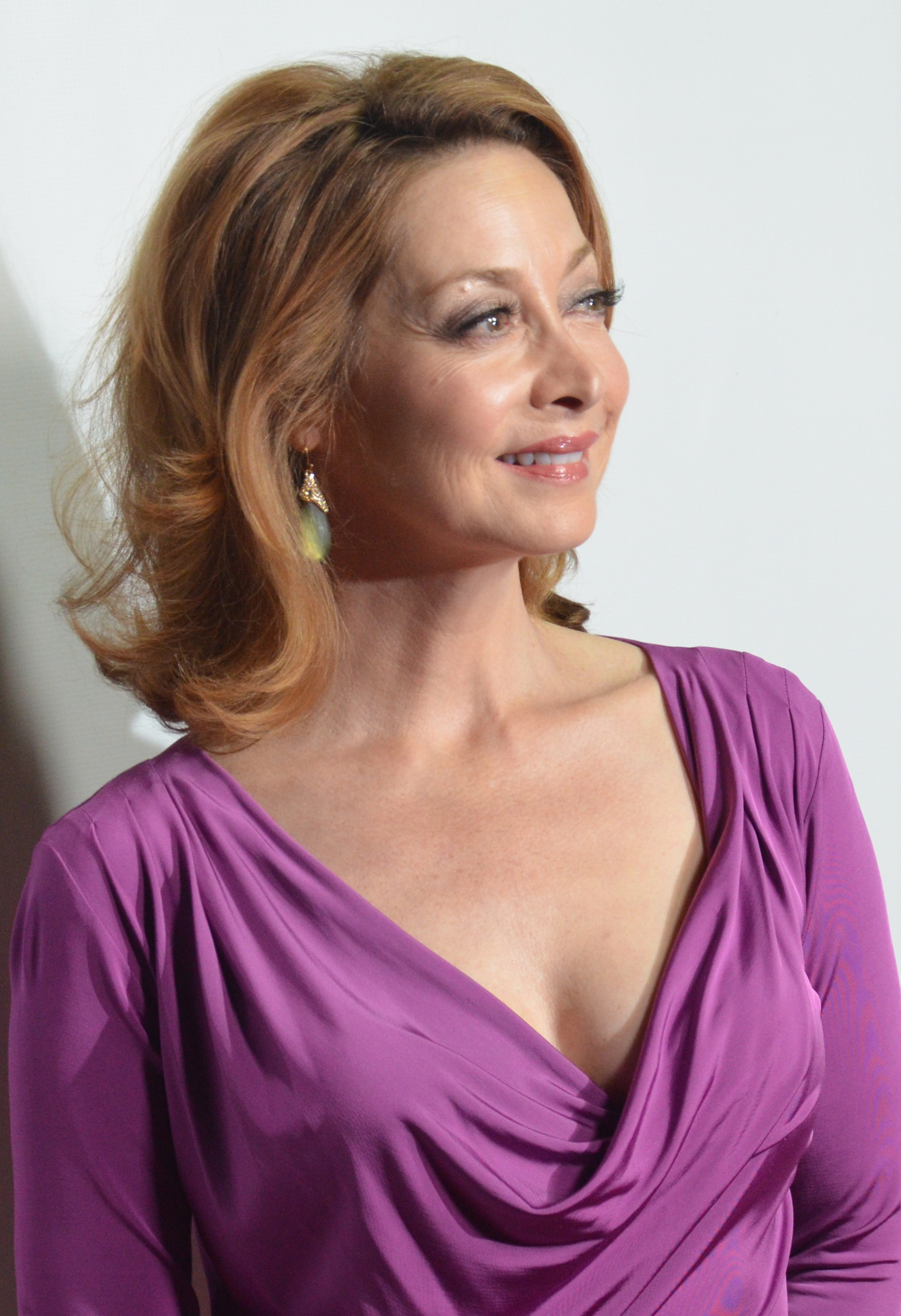 Sharon Lawrence by Mingle Media TV in 2013